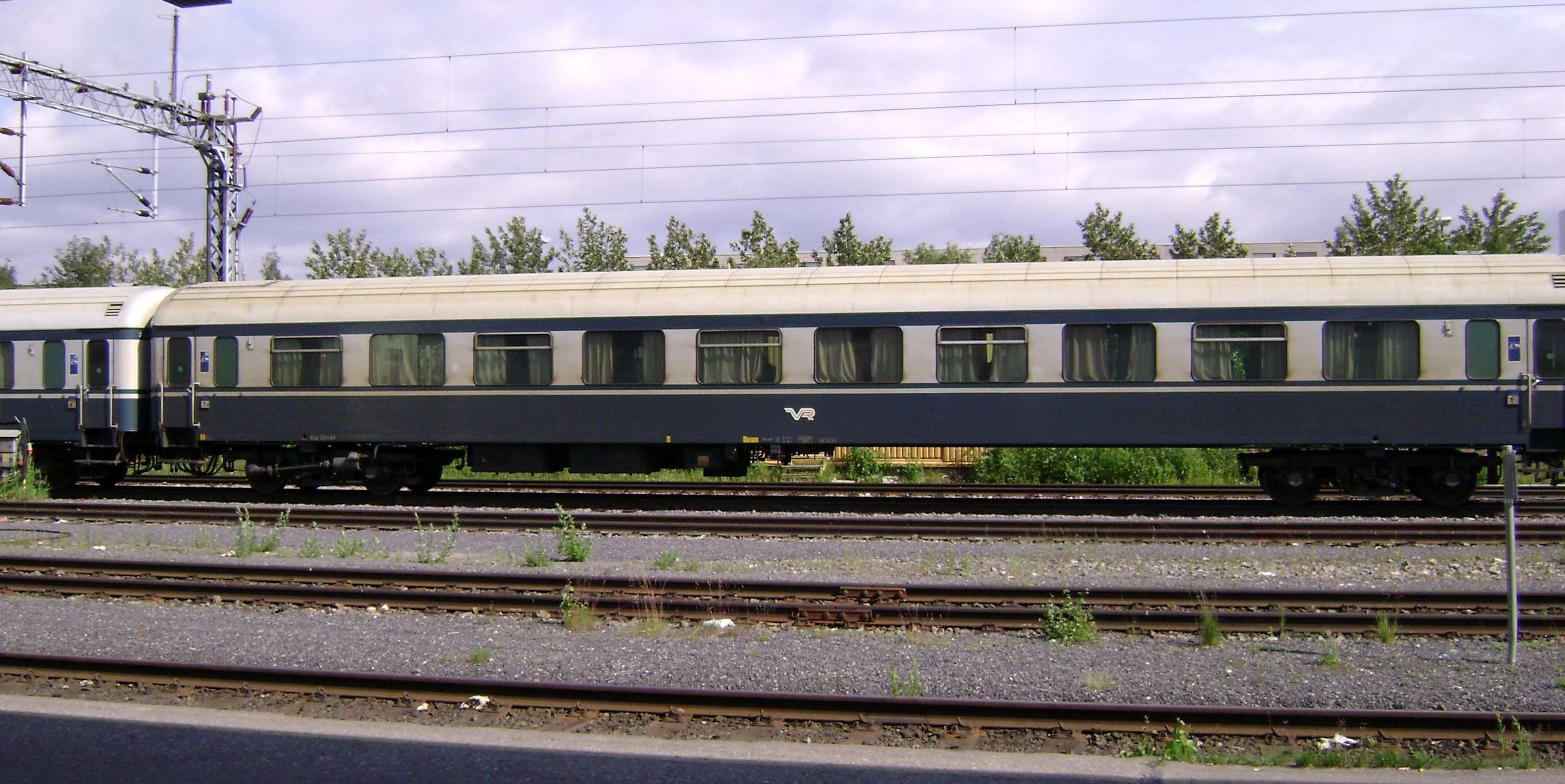 Finnish Eip passenger coach in Oulu